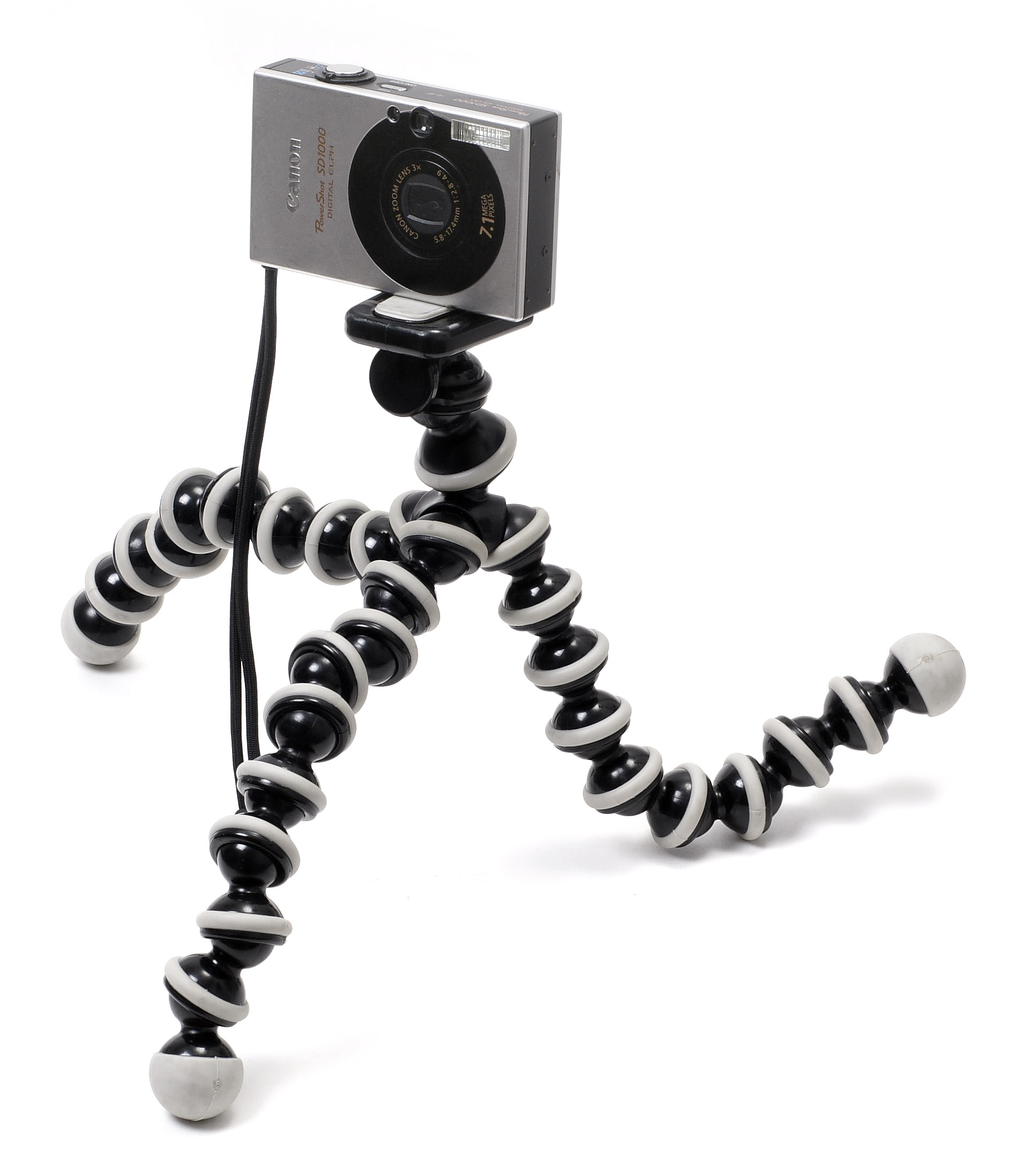 A Gorillapod with camera attached.